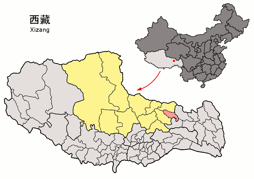 Location of Sog County (pink) and Nagchu Prefecture (yellow) within Tibet (Xizang) autonomous region of China